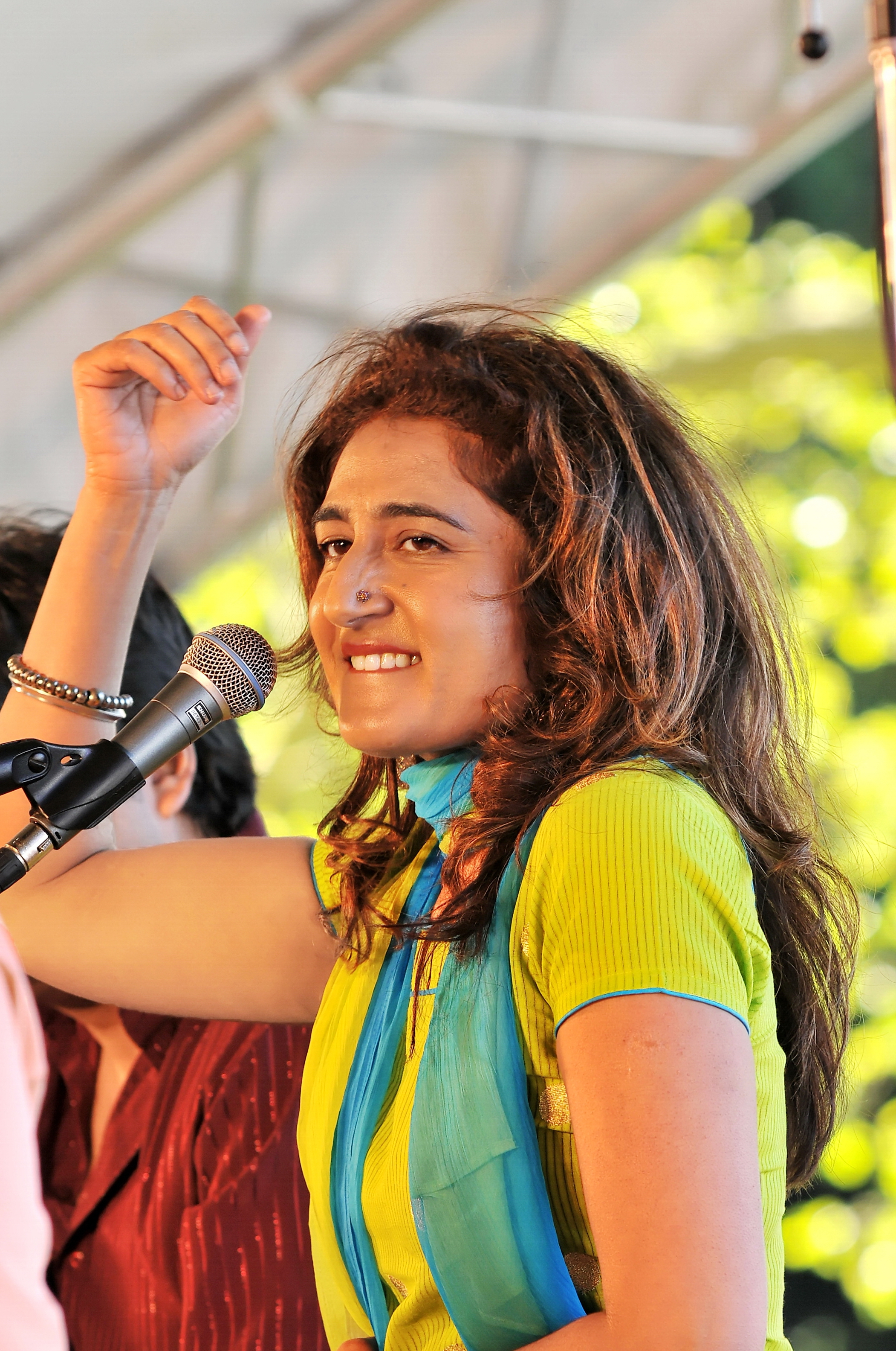 View Large or Original. Sawan Mela 2010. Juno Award winner Kiran Ahluwalia